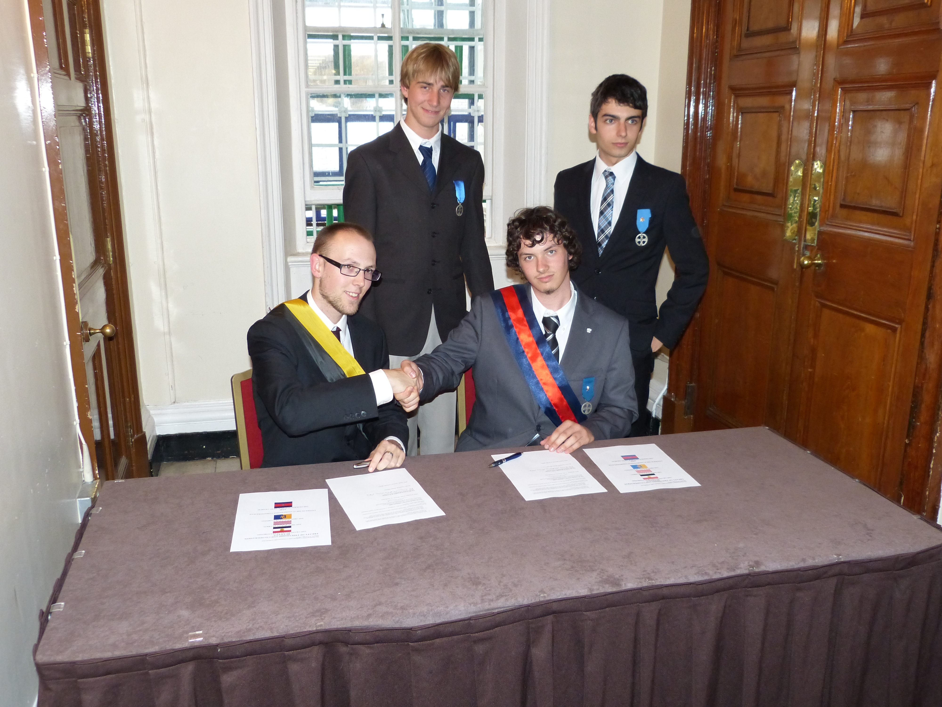 Signing of a treaty between the micronations Grand Duchy of Flandrensis and the Republic of St. Charlie (Italy) on 15 July 2012 at the Polination Micronational Conference in London.